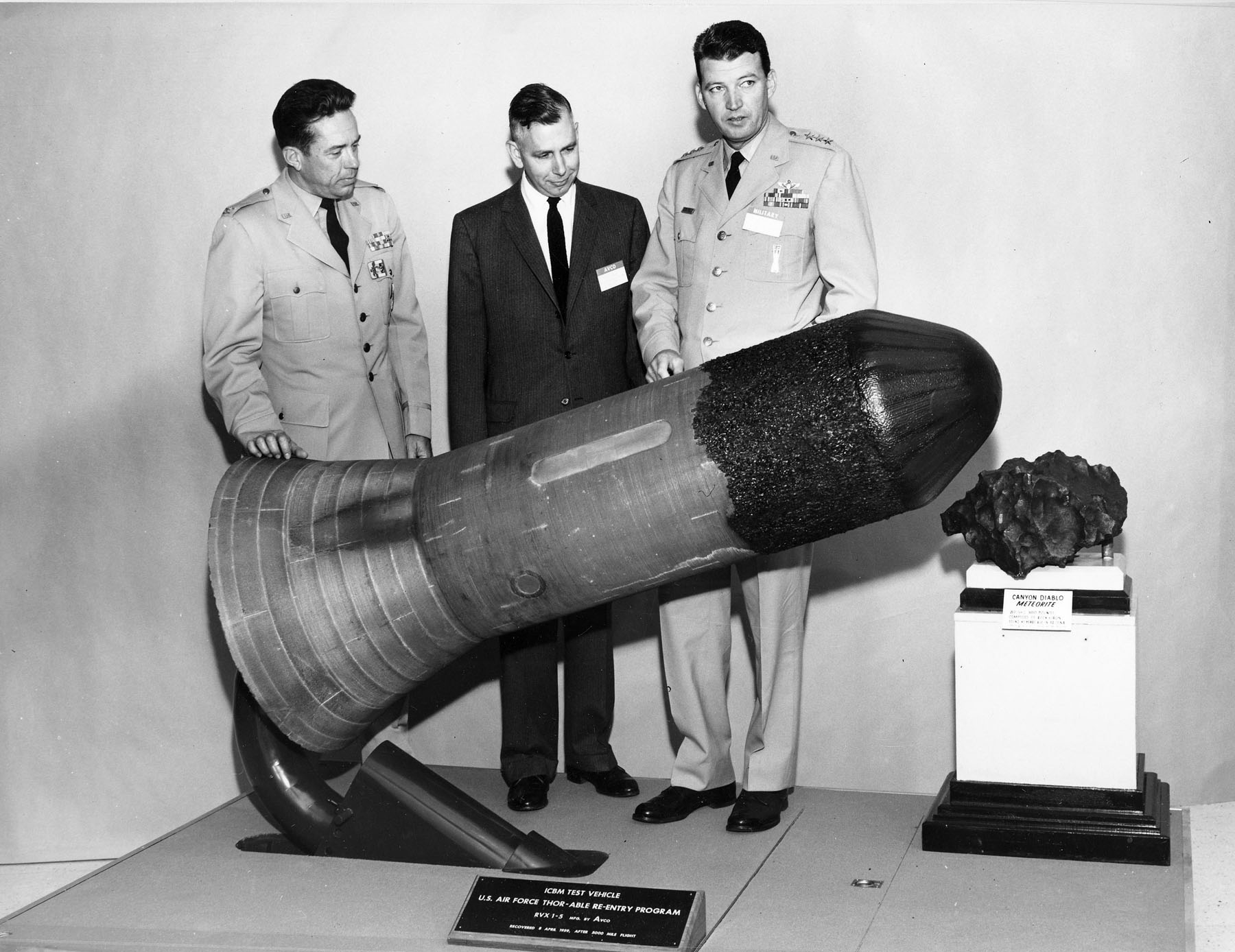 General Bernard A. Schriever (right) with members of Avco Cooperation (today: Textron, Inc) inspects an experimental missile warhead re-entry vehicle in 1959. Creating an effective nuclear-armed missile force was one of his main goals. ICBM Test Vehicle of U.S. Air Force Thor-Able Reentry Program. Recovered April 1959 after 5000 mile flight.